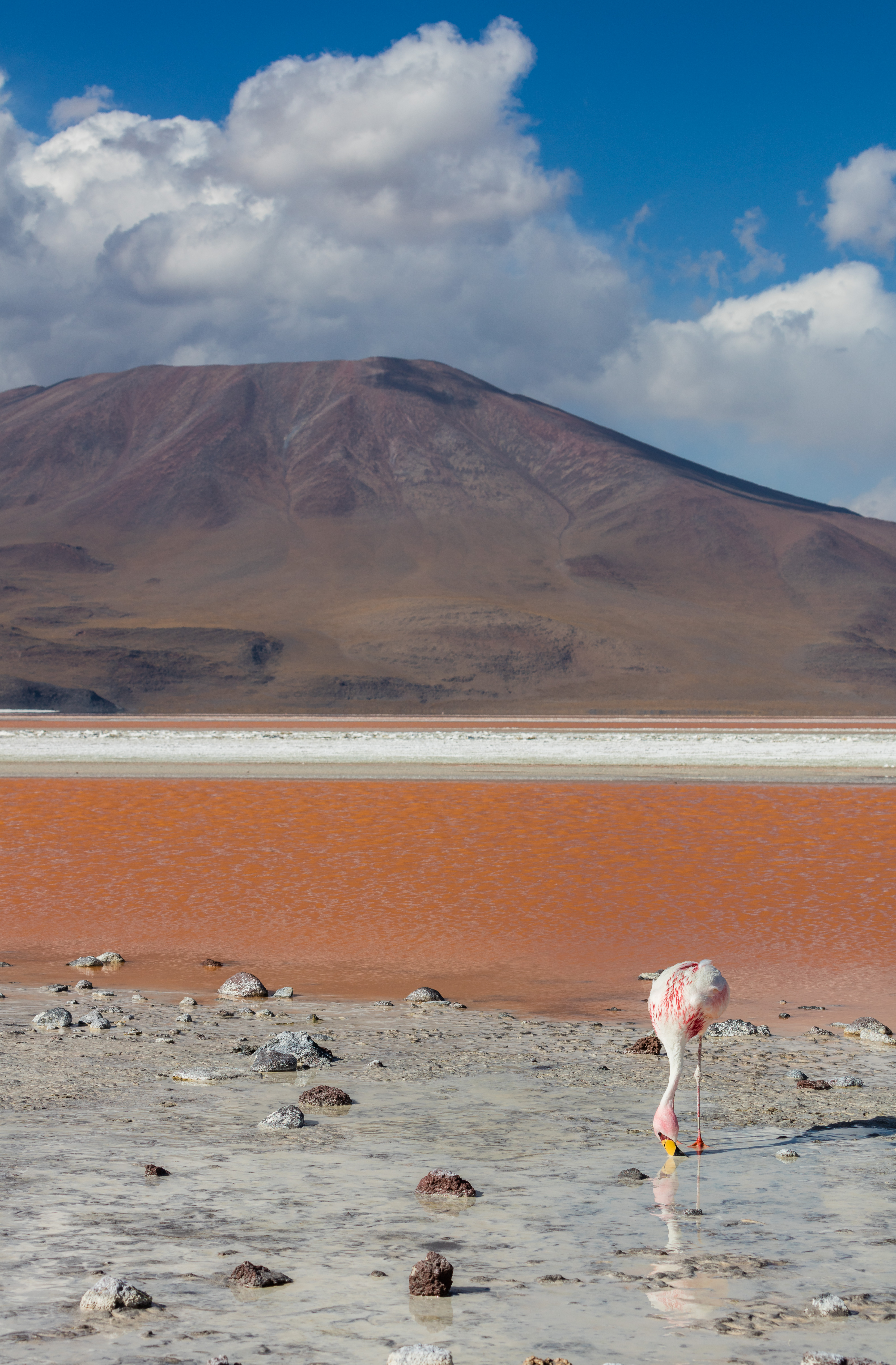 Andean flamingo (Phoenicoparrus andinus), Laguna Colorada, Bolivia